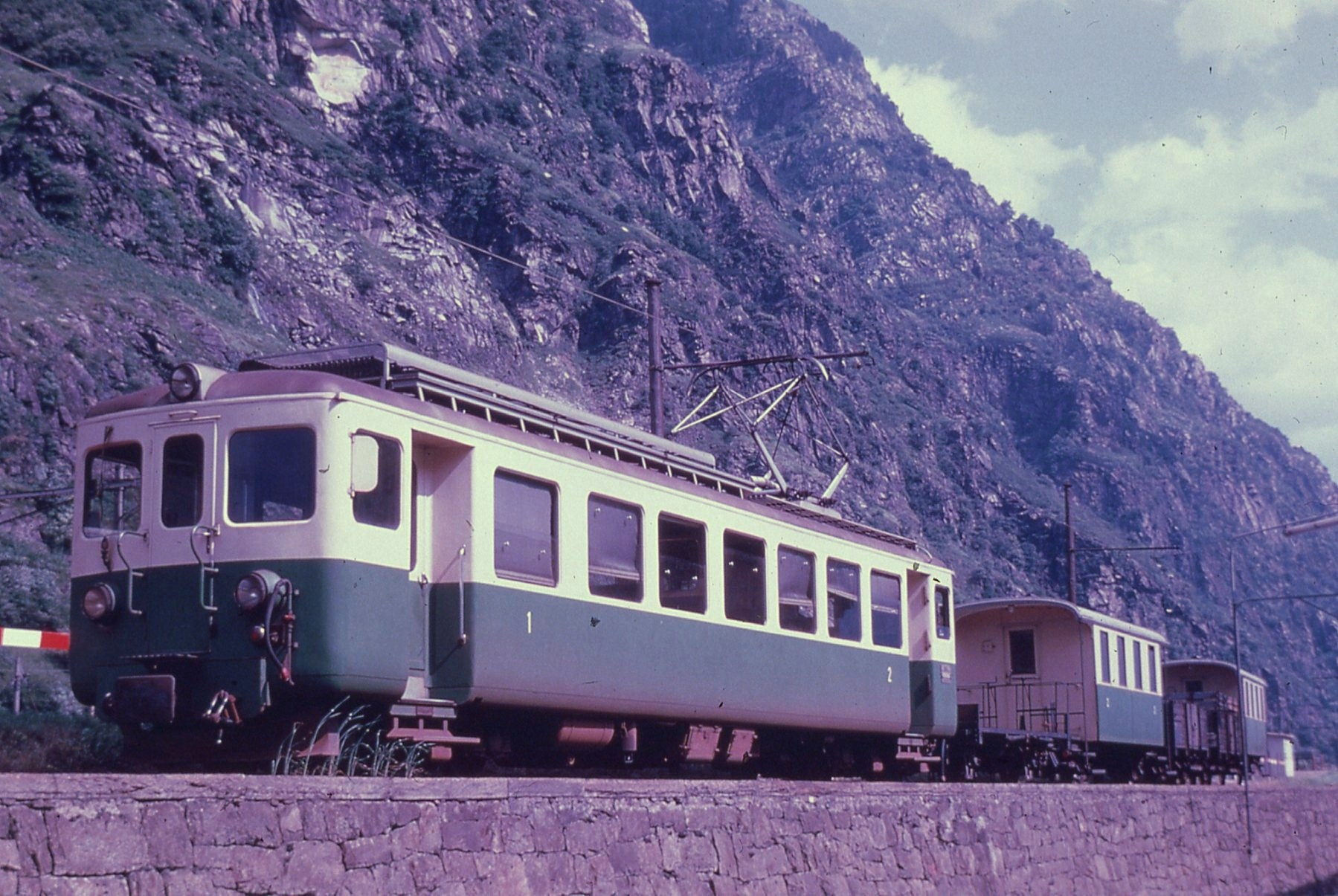 Photo: J.M. BONGNI. Template:Train of the Biasca-Acquarossa line, Canton of Ticino, Switzerland. 29 September 1973